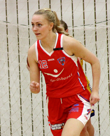 María Ben Erlingsdóttir (9) and Ragna Margrét Brynjarsdóttir (12) in a game between Grindavík and Valur on 12 November 2014.